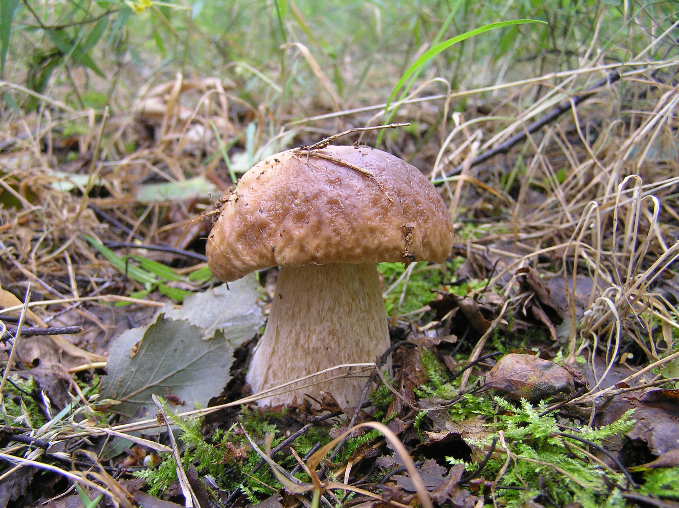 Boletus.